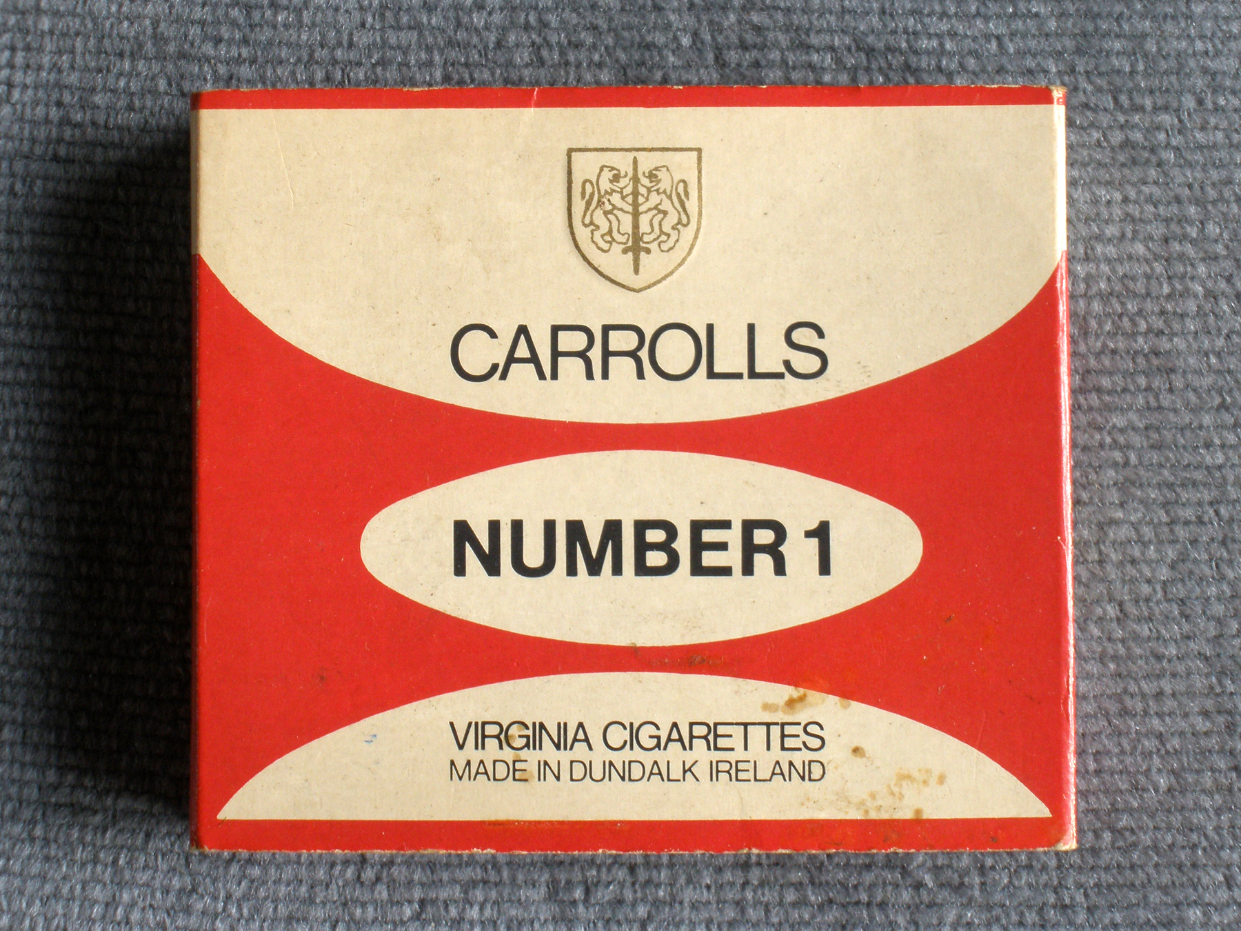 A packet of Carrolls Number 1 cigarettes purchased in Dublin, Ireland in 1975.